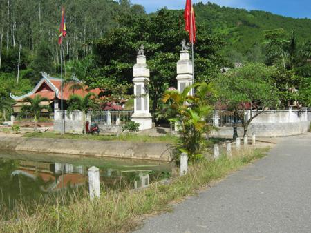 Tomb of King Mai Hac De in Nam Dan district